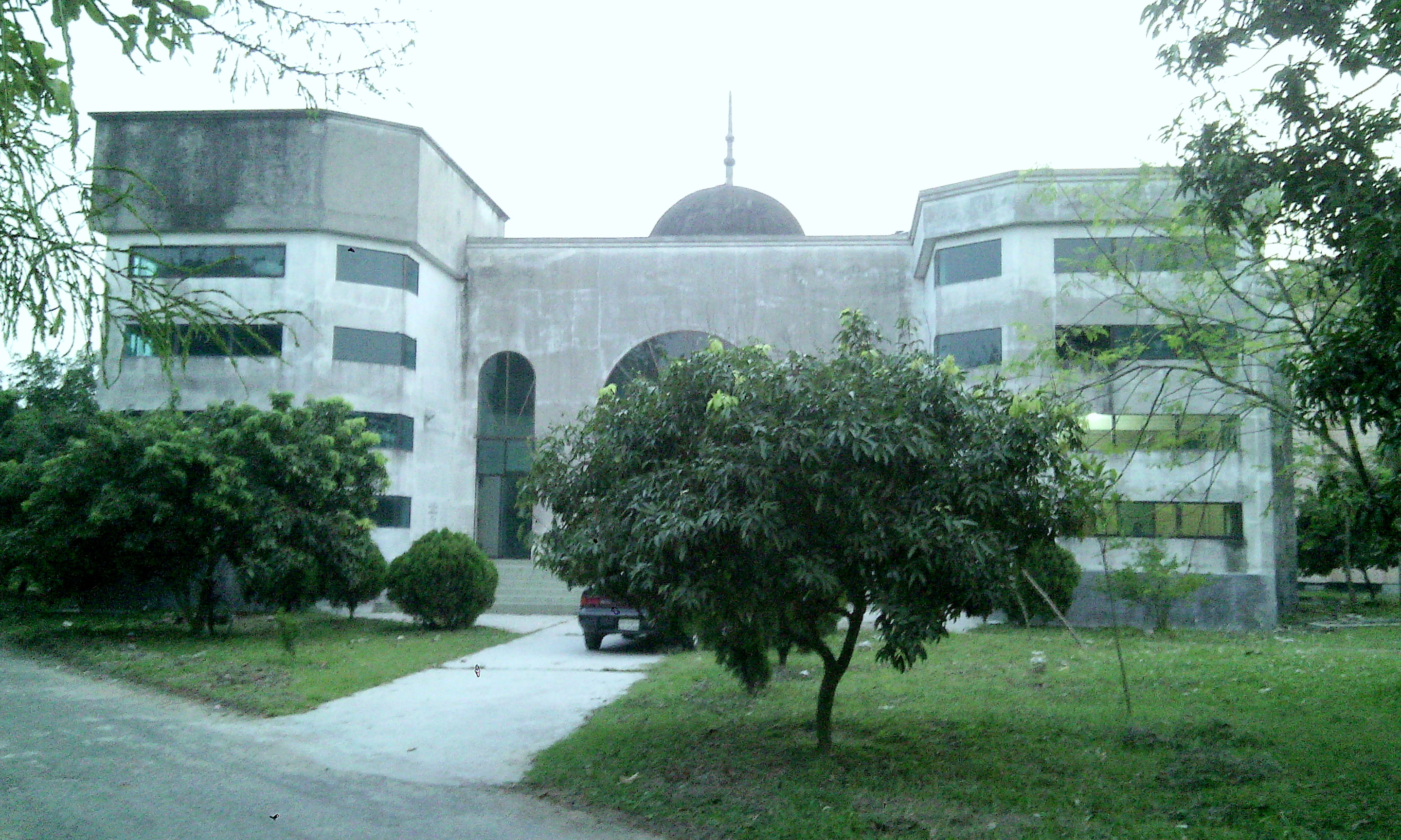 'DjMC Mosque' is situated at Dinajpur Medical college in Bangladesh